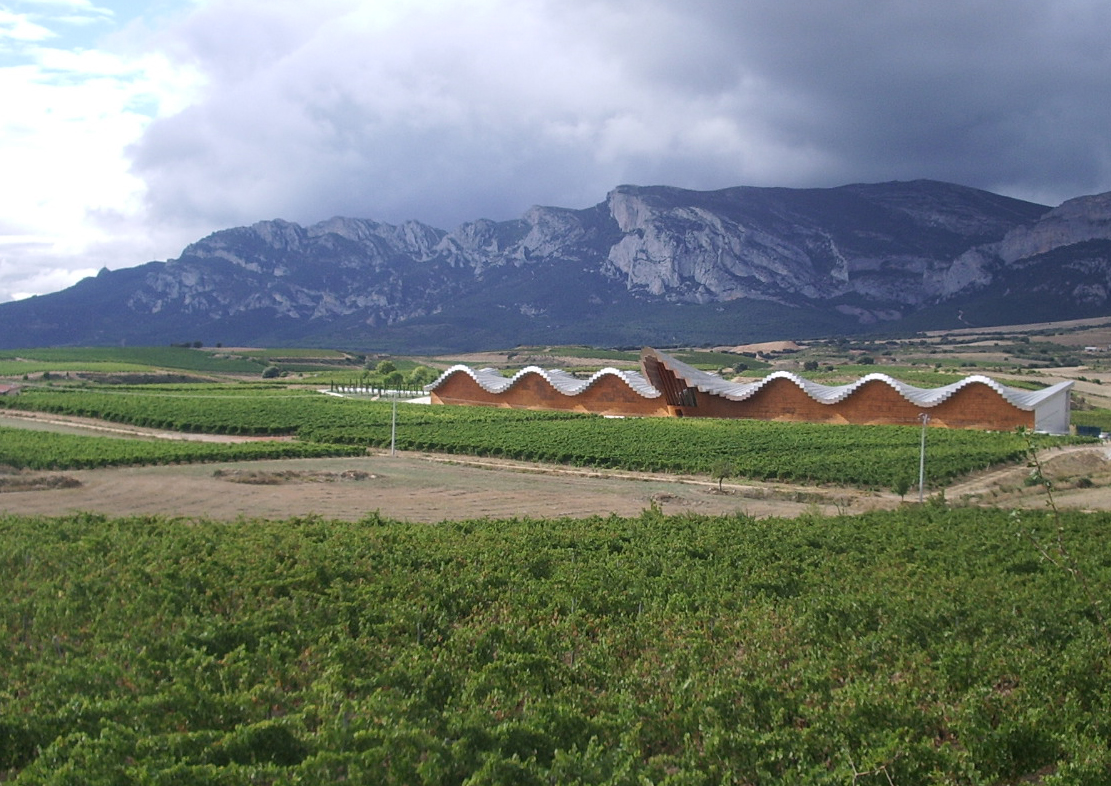 Ysios wine cellar in Laguardia, Álava, Spain (by architect Calatrava)